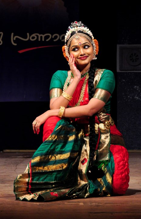 Kuchupudi performance in Yuva Prathiba Festival